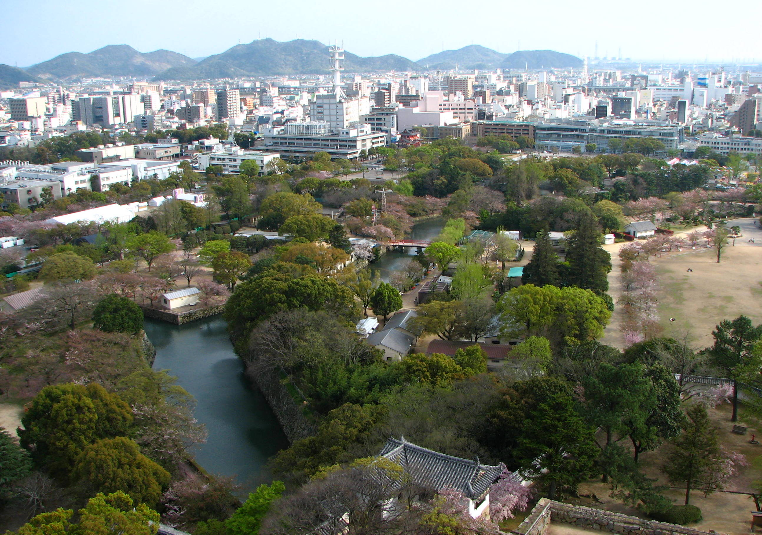 Himeji City Zoo (姫路市立動物園) and behind, Shiromidai Park, view from Himeji Castle, Himeji, Hyogo Prefecture, Japan